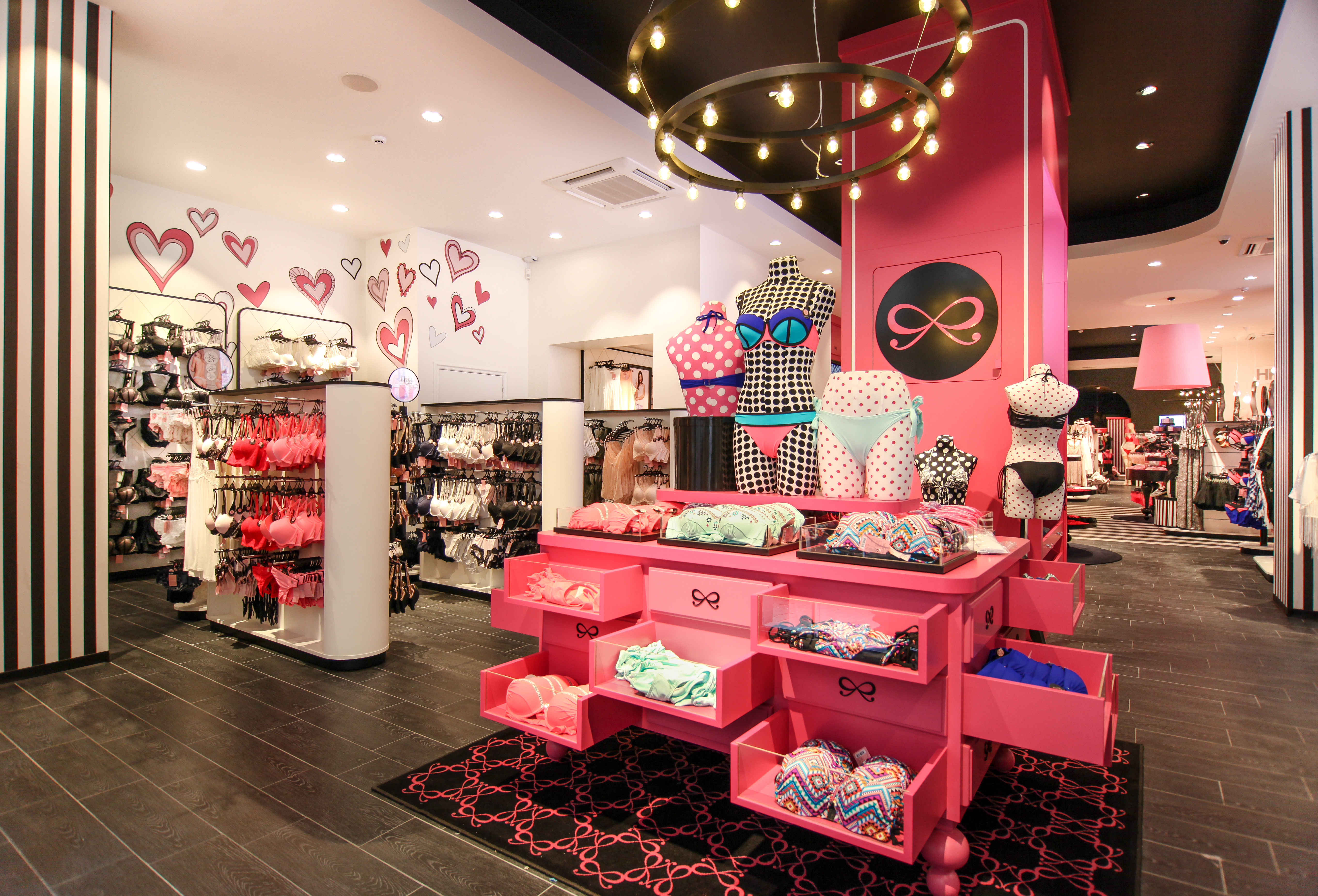 Antwerpen Store binnenland